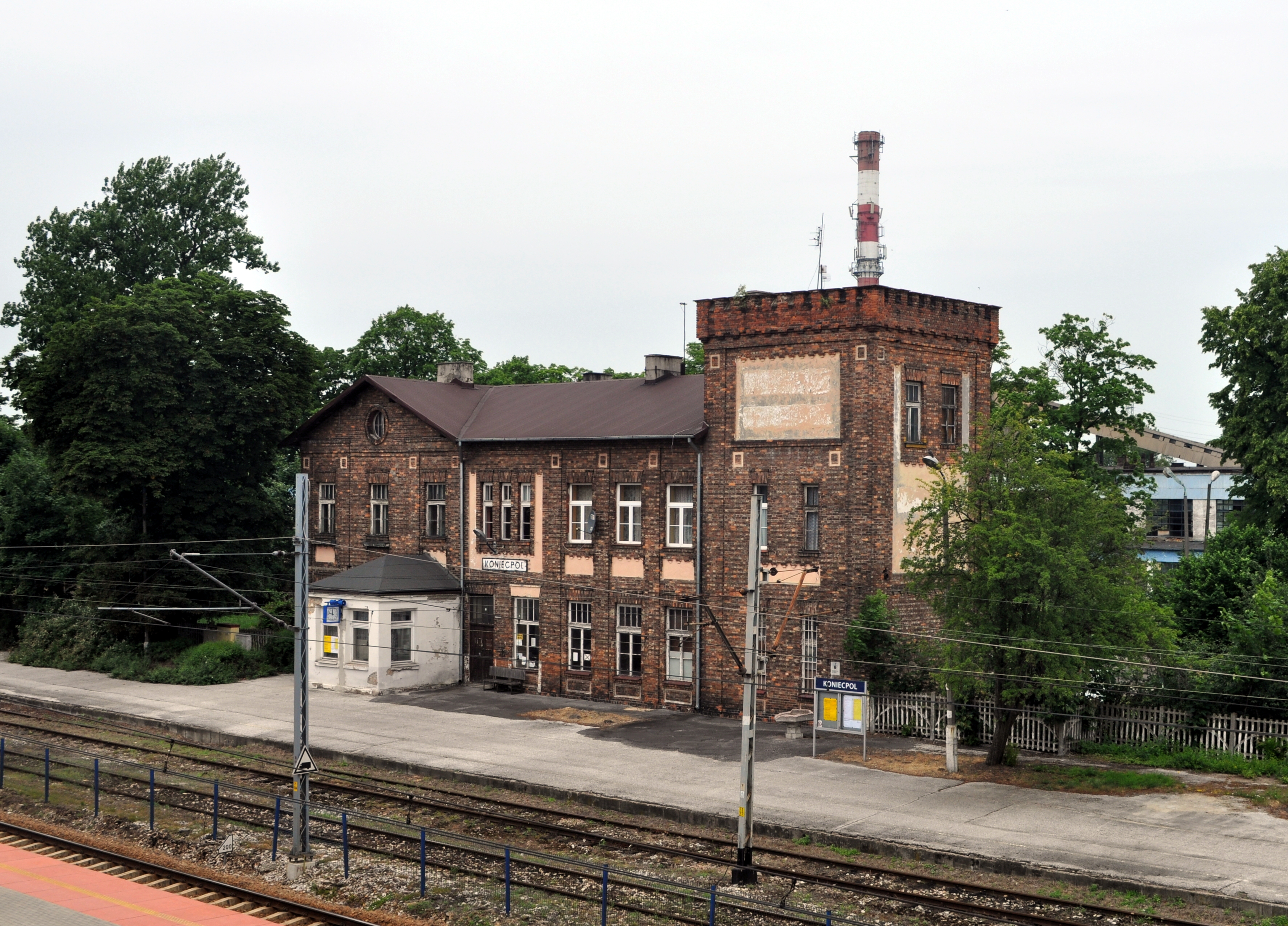 Koniecpol train station